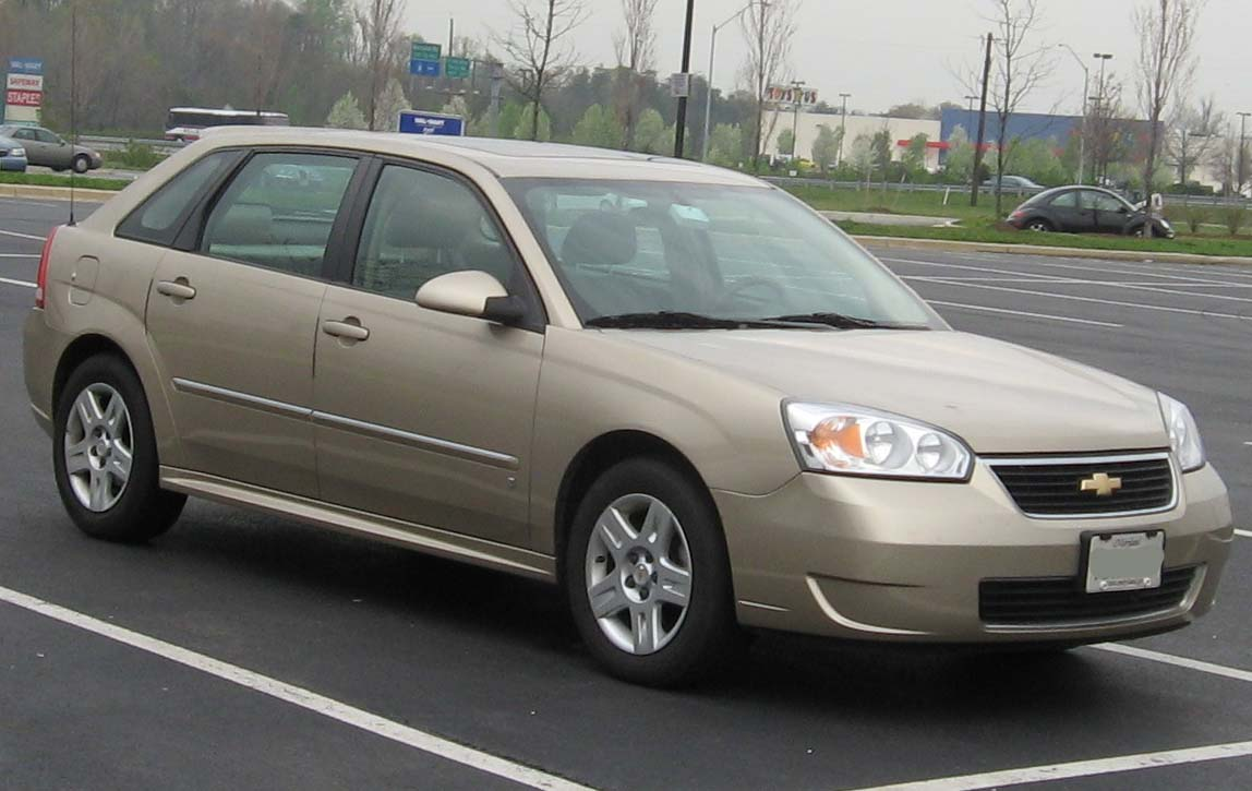 2006-2007 Chevrolet Malibu MAXX photographed in USA.